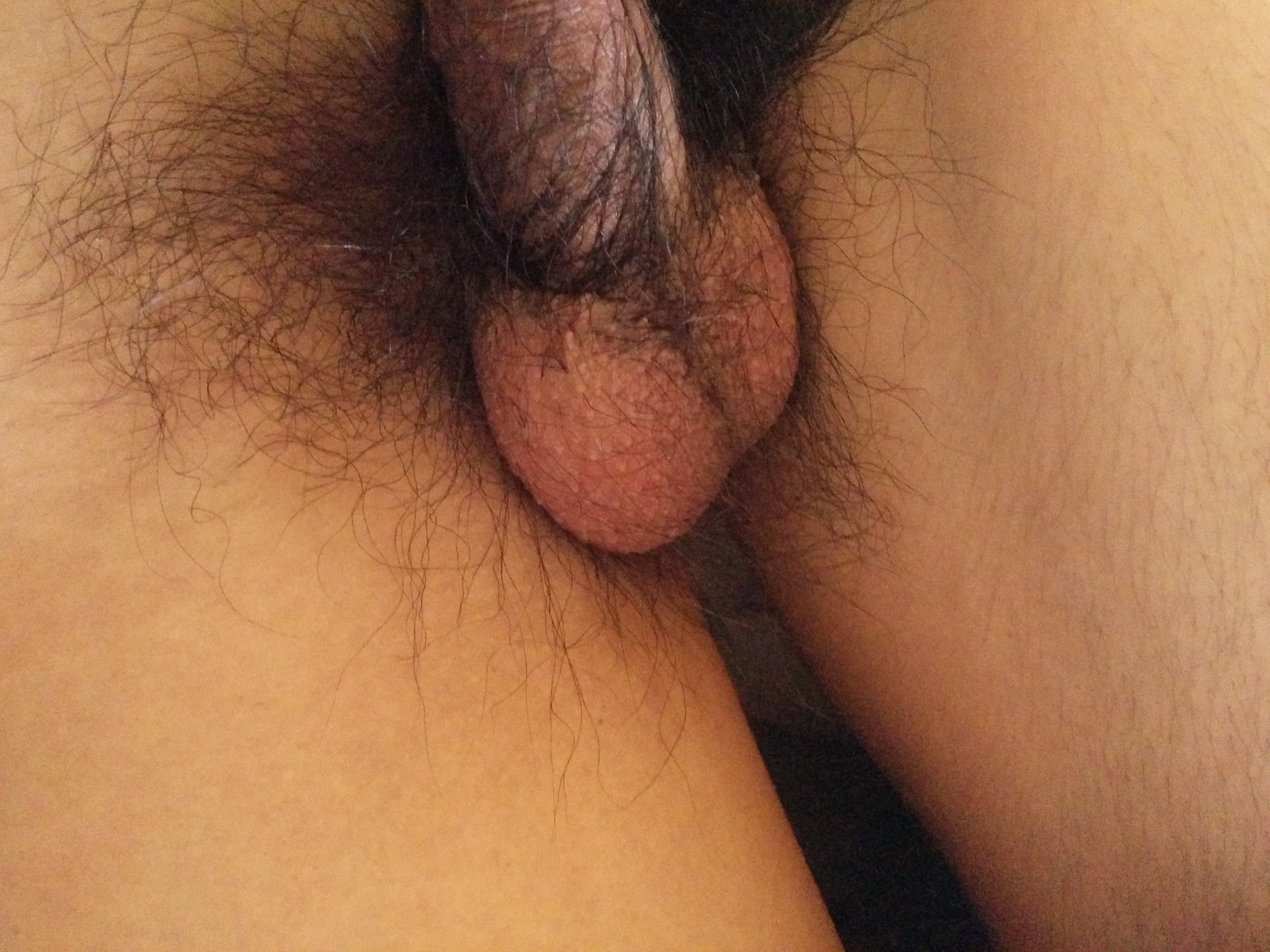 A hairy scrotum of a twenty-one-year-old Japanese male. His genitals are unshaved and pubic hair is on his scrotum. His left testicle is affected by varicocele and less big than the right one. The photo and description is for educational purposes.